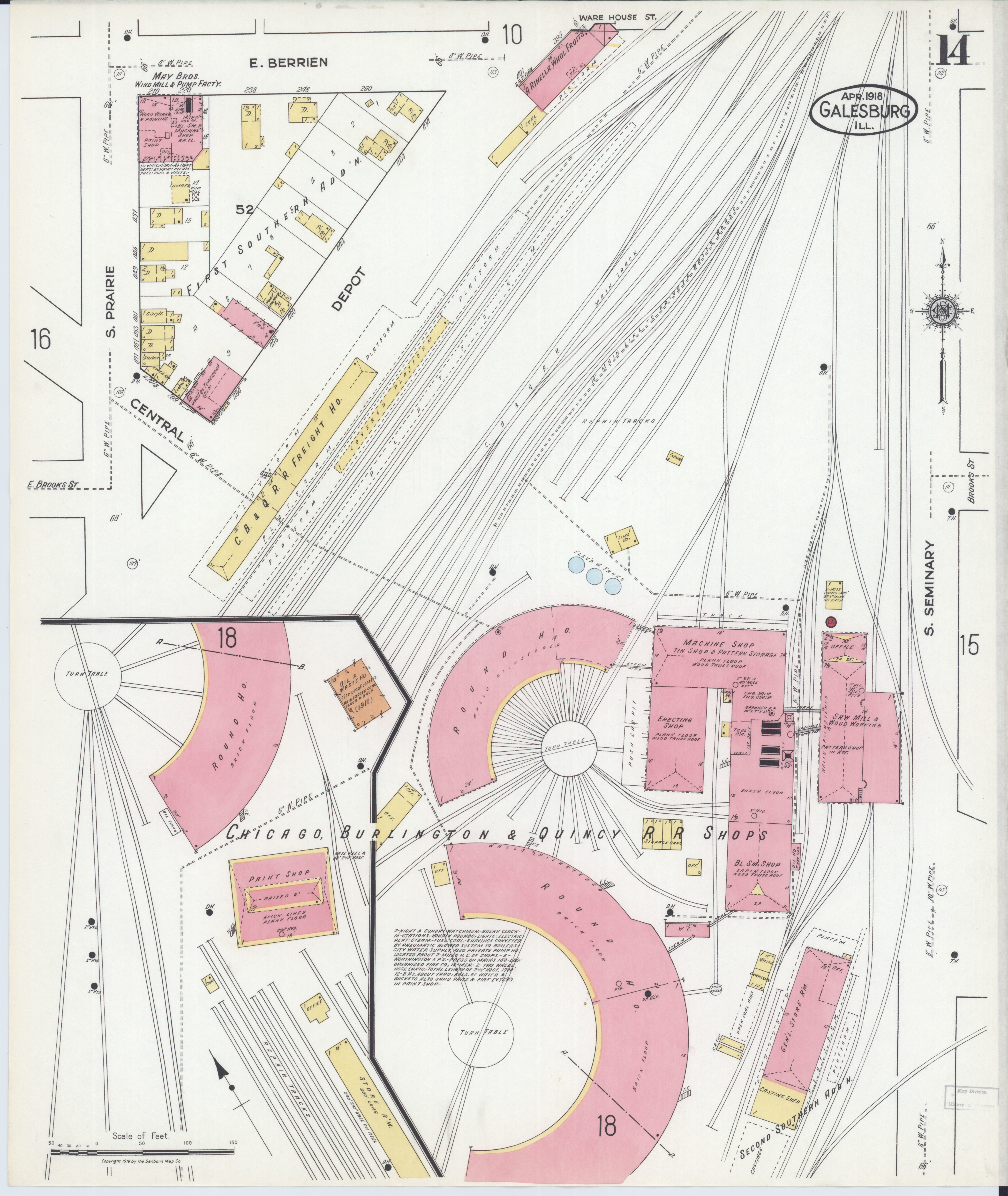 Apr 1918. 26 Sheet(s).